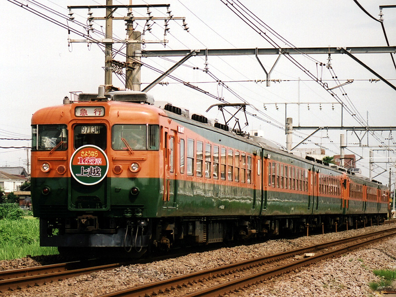 JR East 165 series EMU final run. This train was painted back to previous colour for last run. JR東日本(国鉄)165系、さよなら165系上越号。この列車は新前橋電車区のリバイバル編成を用いて運転され、同区の165系の最終運用となった。高崎線吹上-行田間にて、下り列車を後打ち撮影。